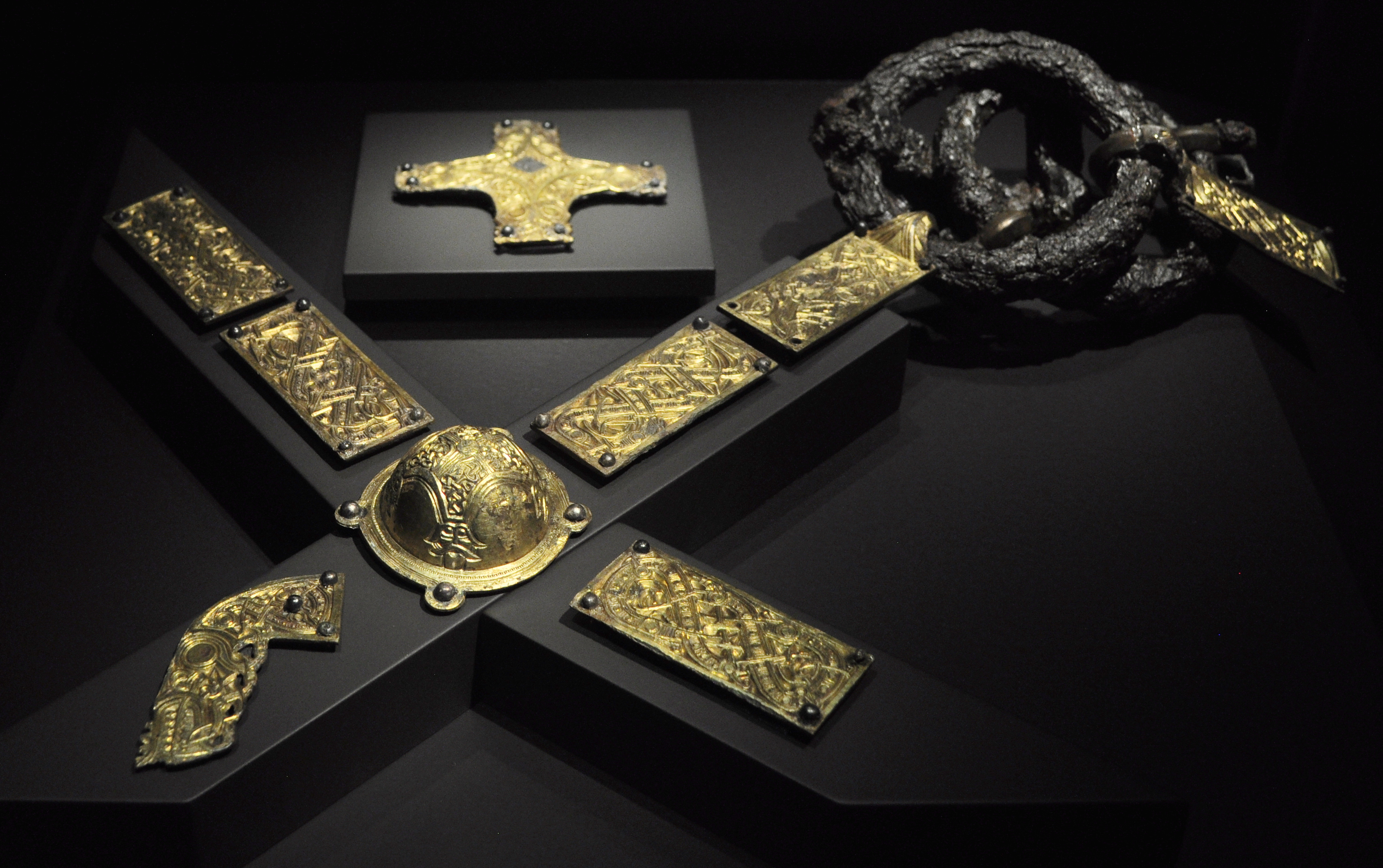 Gold from a horse harness from Valsgärde boat graves 6 & 7, 7th century, "The Vikings Begin" exhibit, Nordic Museum, Seattle, Washington, U.S. No indication which of the two graves was the source of exactly which of the objects displayed.